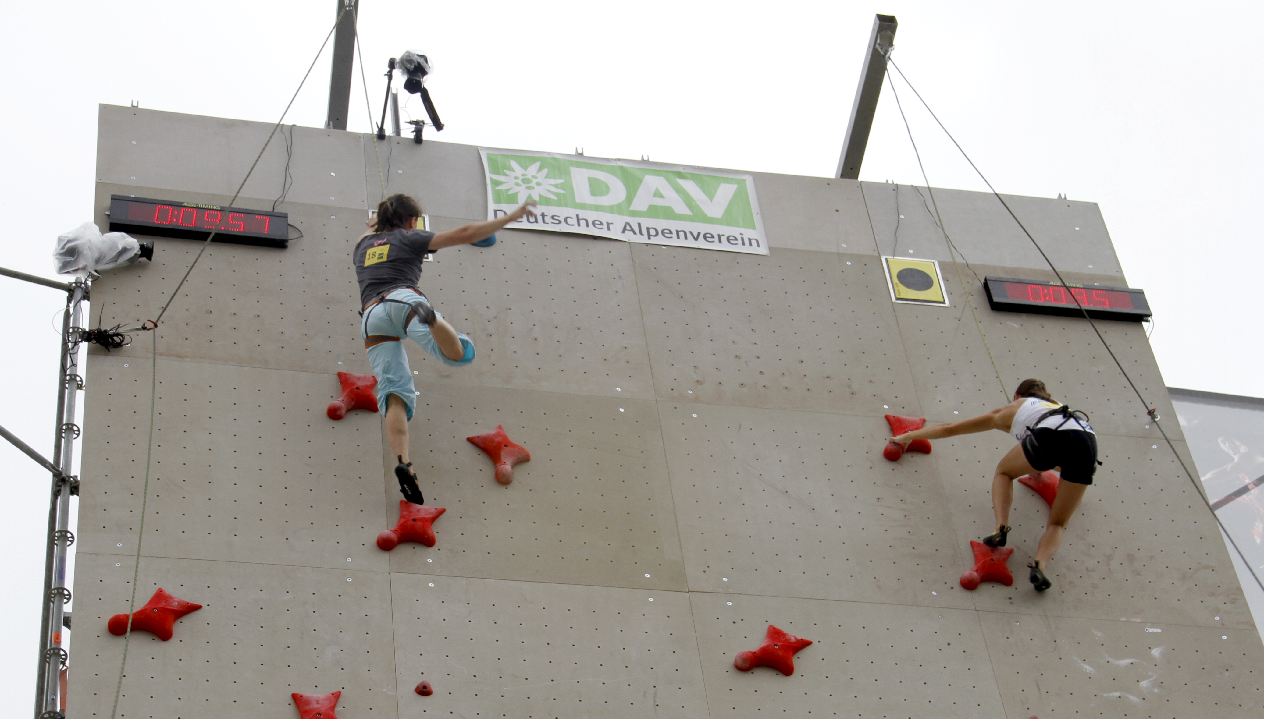 Speed climbing, at a promo event in Munich, Germany. Edyta Ropek (POL) wins against Anouck Jaubert (FRA)